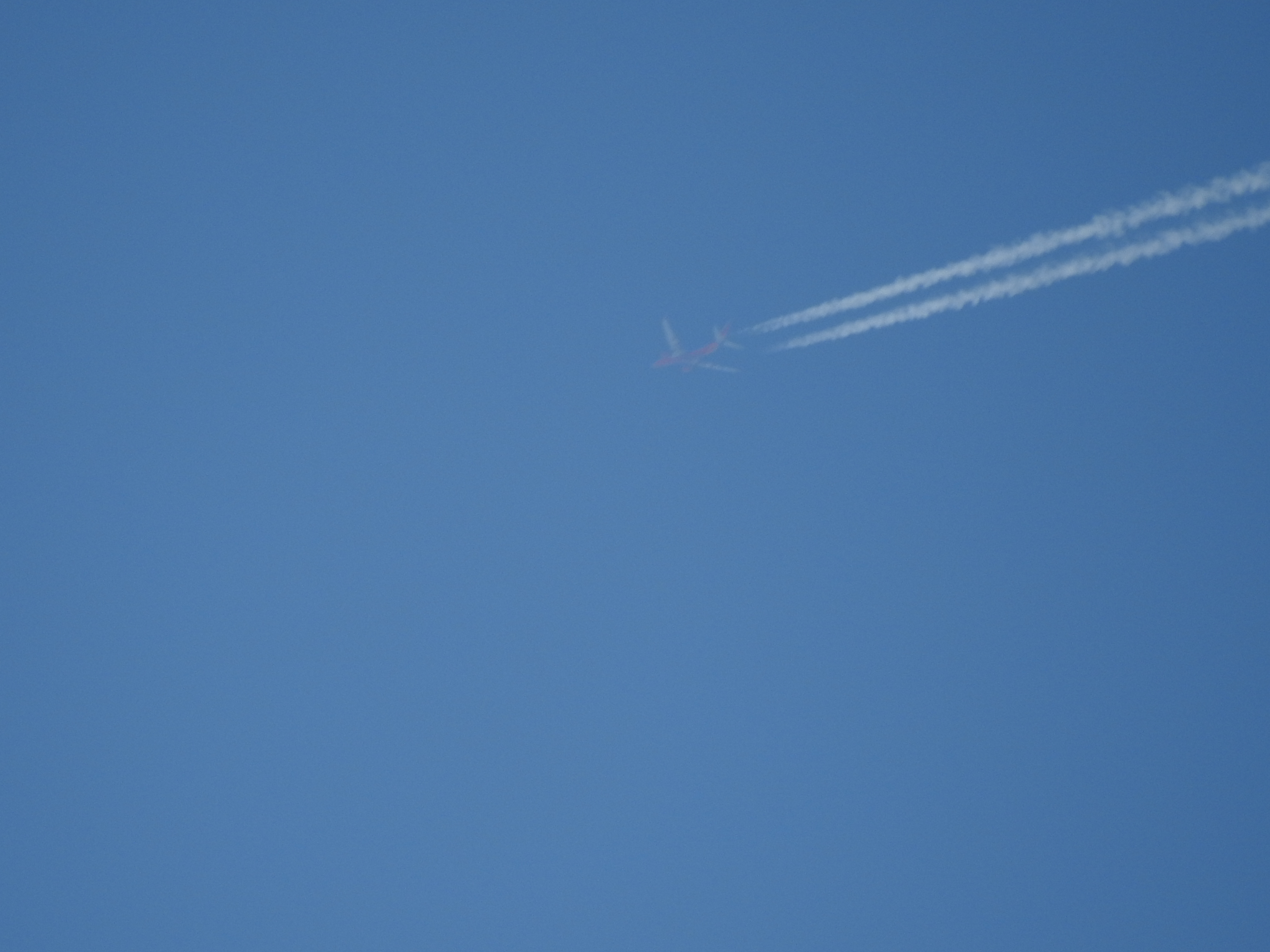 Airplane!